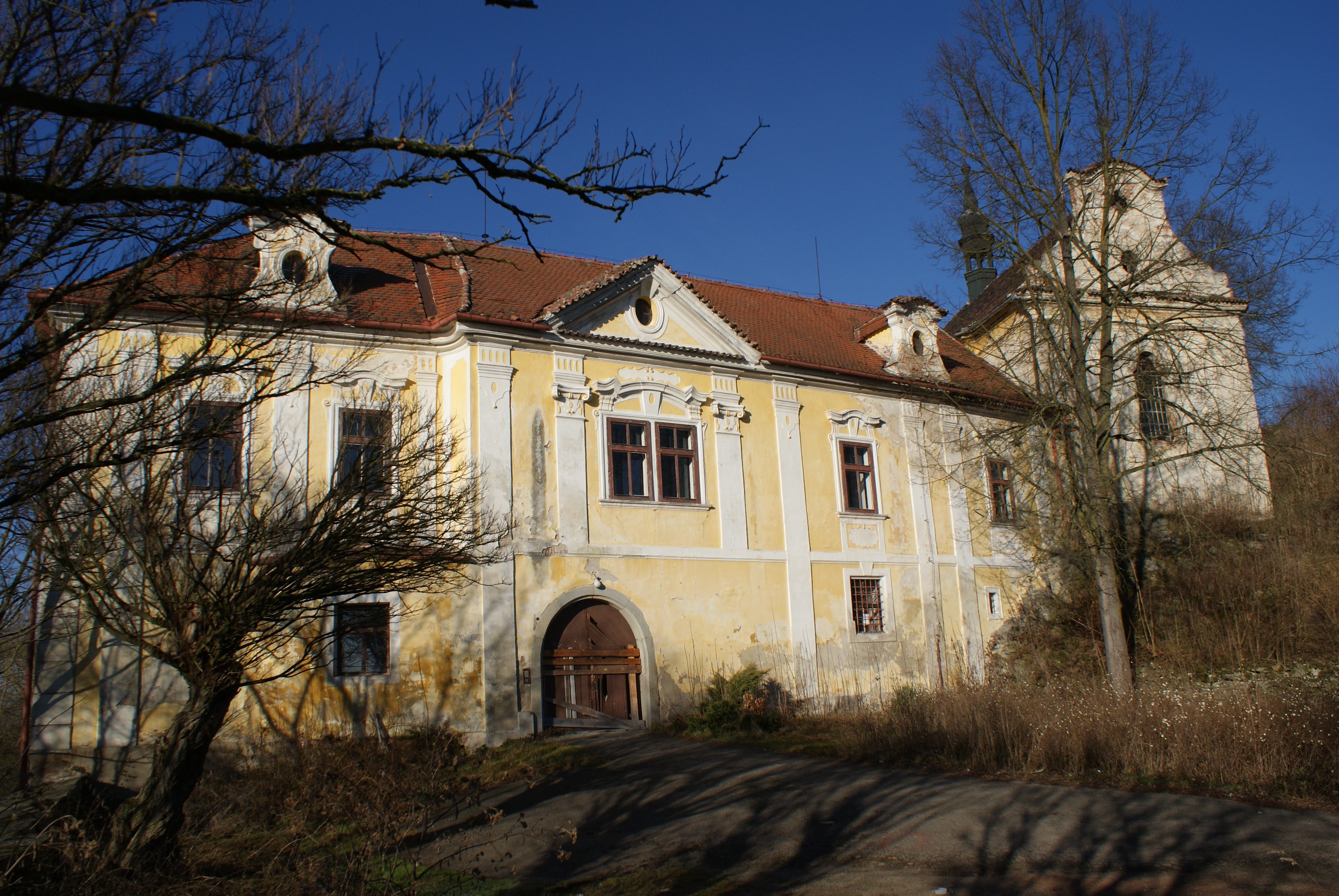 Střela castle in Strakonice district, Czech Republic, main entrance.